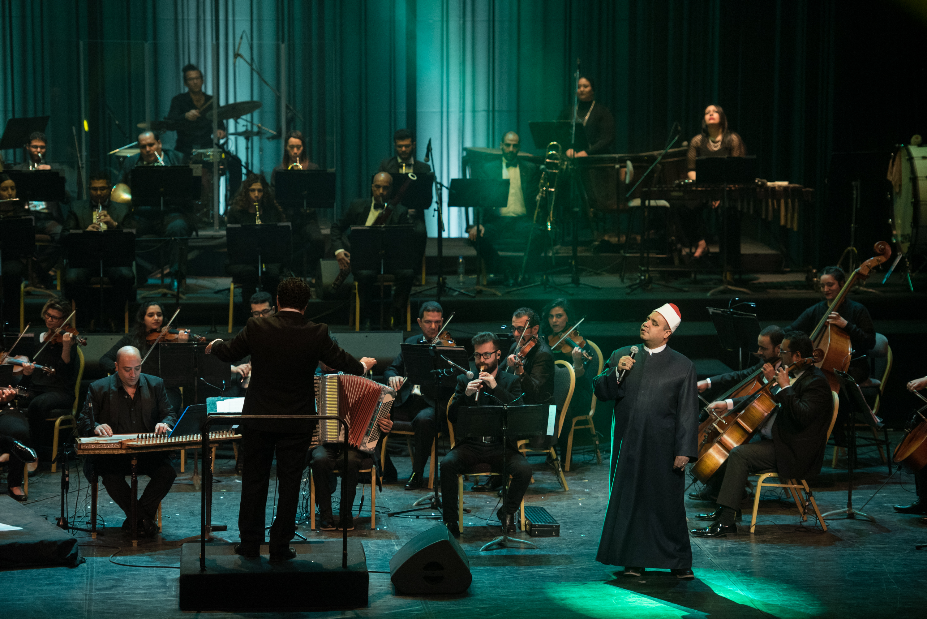 Cairo Opera Orchestra, Cairo steps Ft. Sheikh Ehab Younis Photo by Marc Onsi